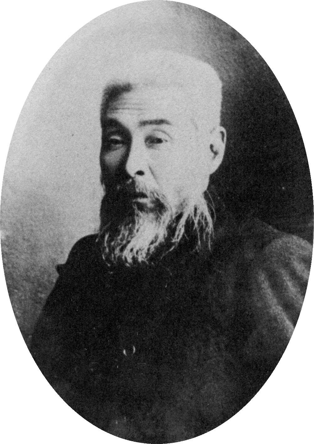 Mr. Hajime Asaoka.